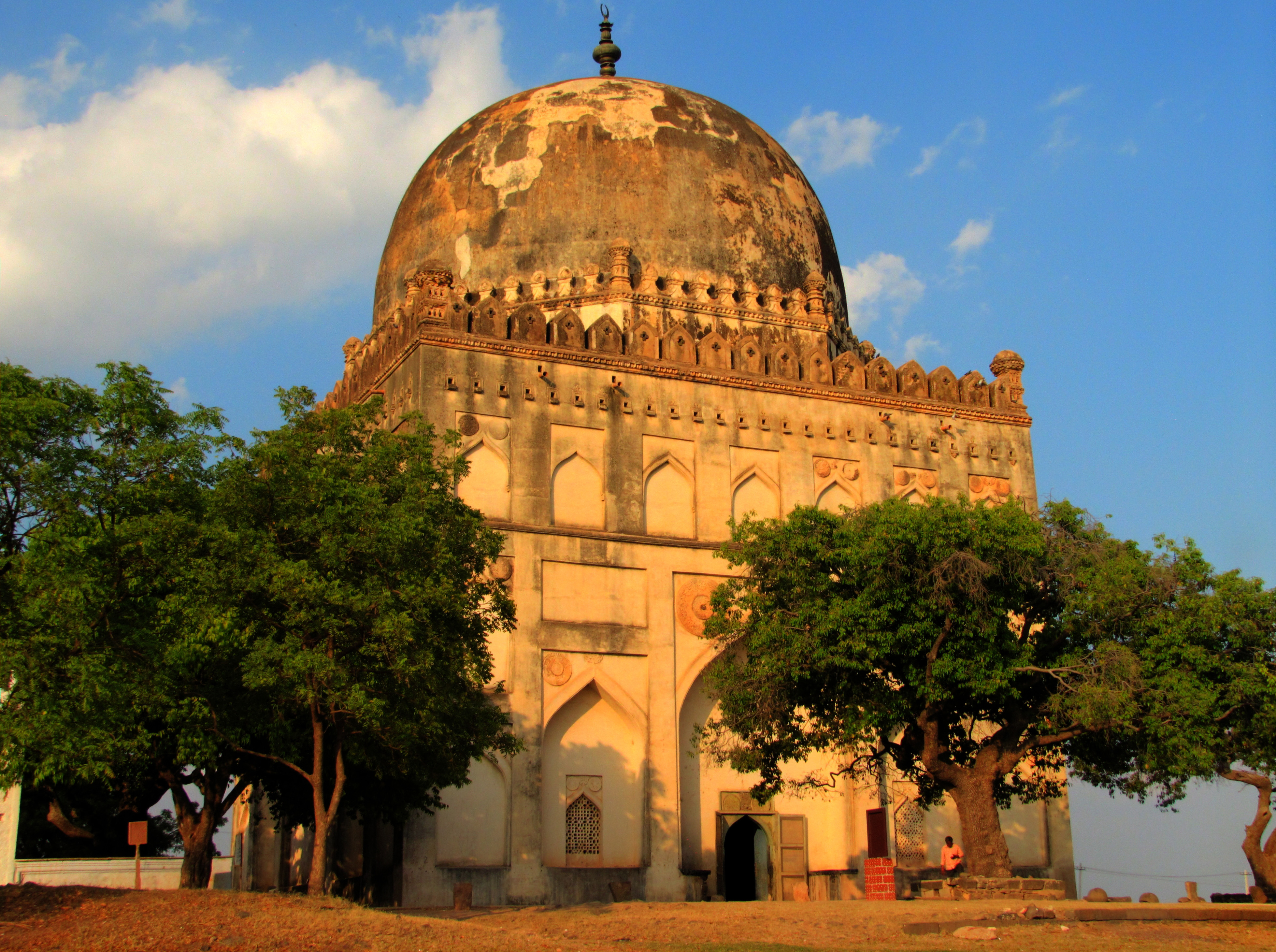 Sultan Ahmed Shah Al Wali Bahmani was a religiously inclined ruler, and accordingly fond the company of saintly personages. He was devoted to Khwaja Bande Nawaz of Gulbarga and later to the order of Shah Nimat-Ullah of Kirman whom he invited the founder to Bidar. It is said, that this saint gave the title “Wali” to Ahmed Shah.